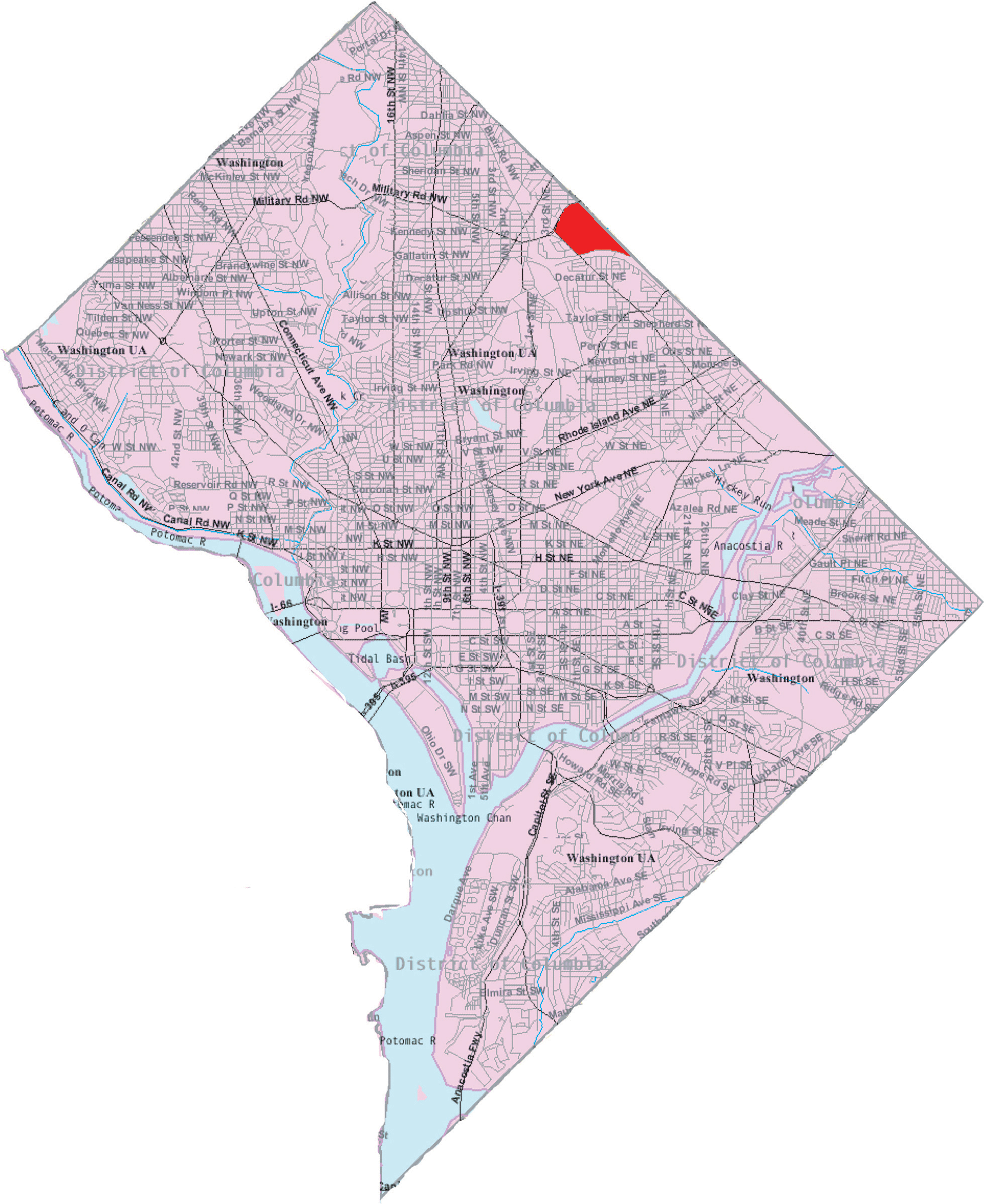 This image is a modified version of a self-generated reference map from the U.S. Census Bureau's American Factfinder at by Wikipedia user Msclguru.